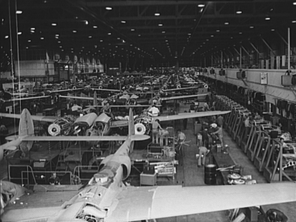 Lockheed plant, Burbank, CA in WWII